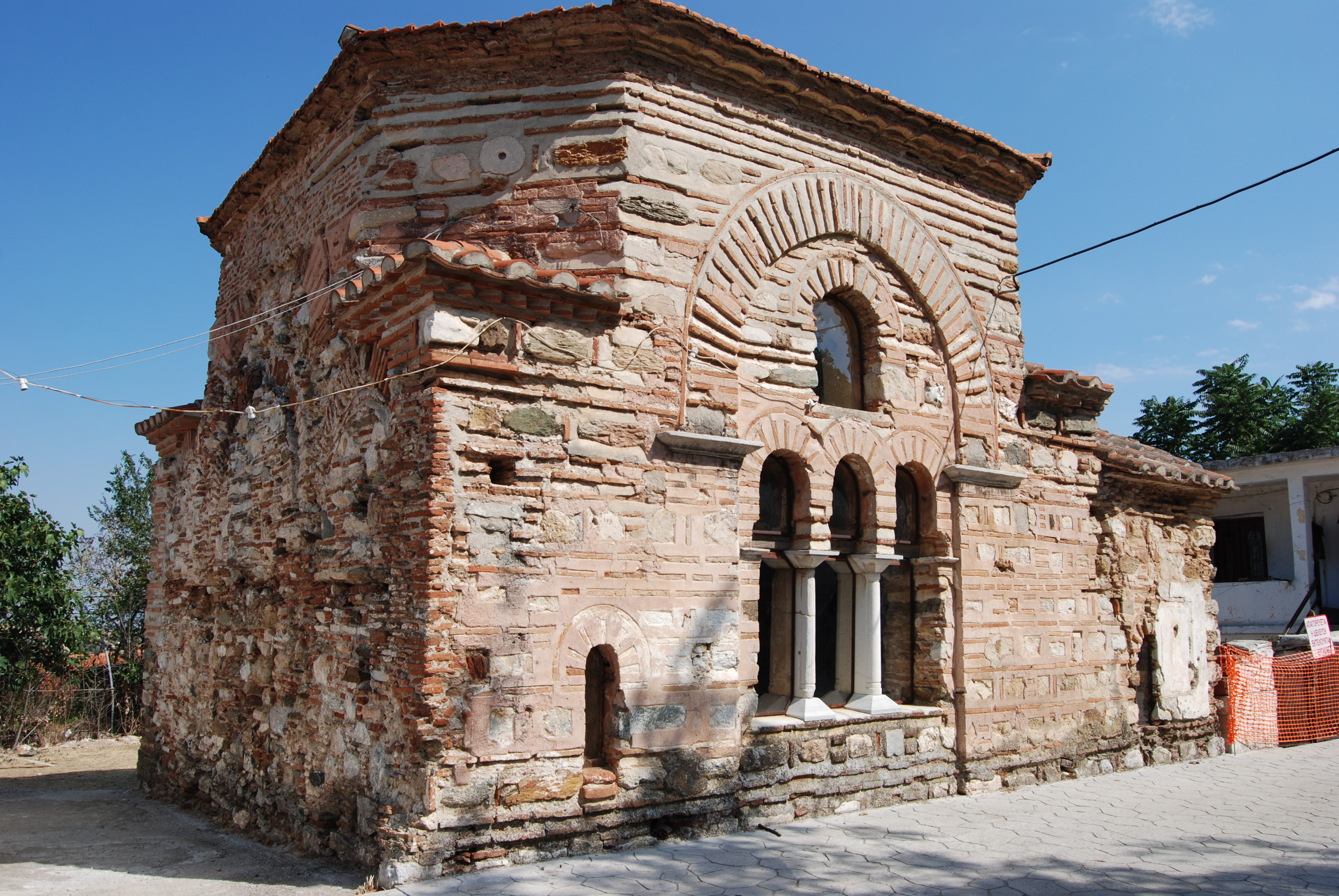 Transfiguration church Hortach